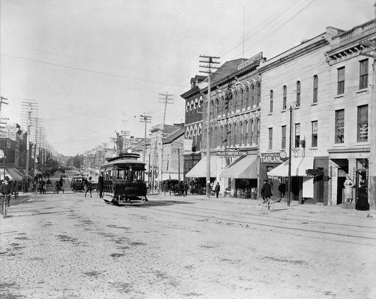 Rideau Street 1898 with streetcar. (Probably south side of Rideau Street, around #36 Rideau Street, as the furniture building appears in Rideau_Street_09.jpg occupying #34 and #36 Rideau Street)